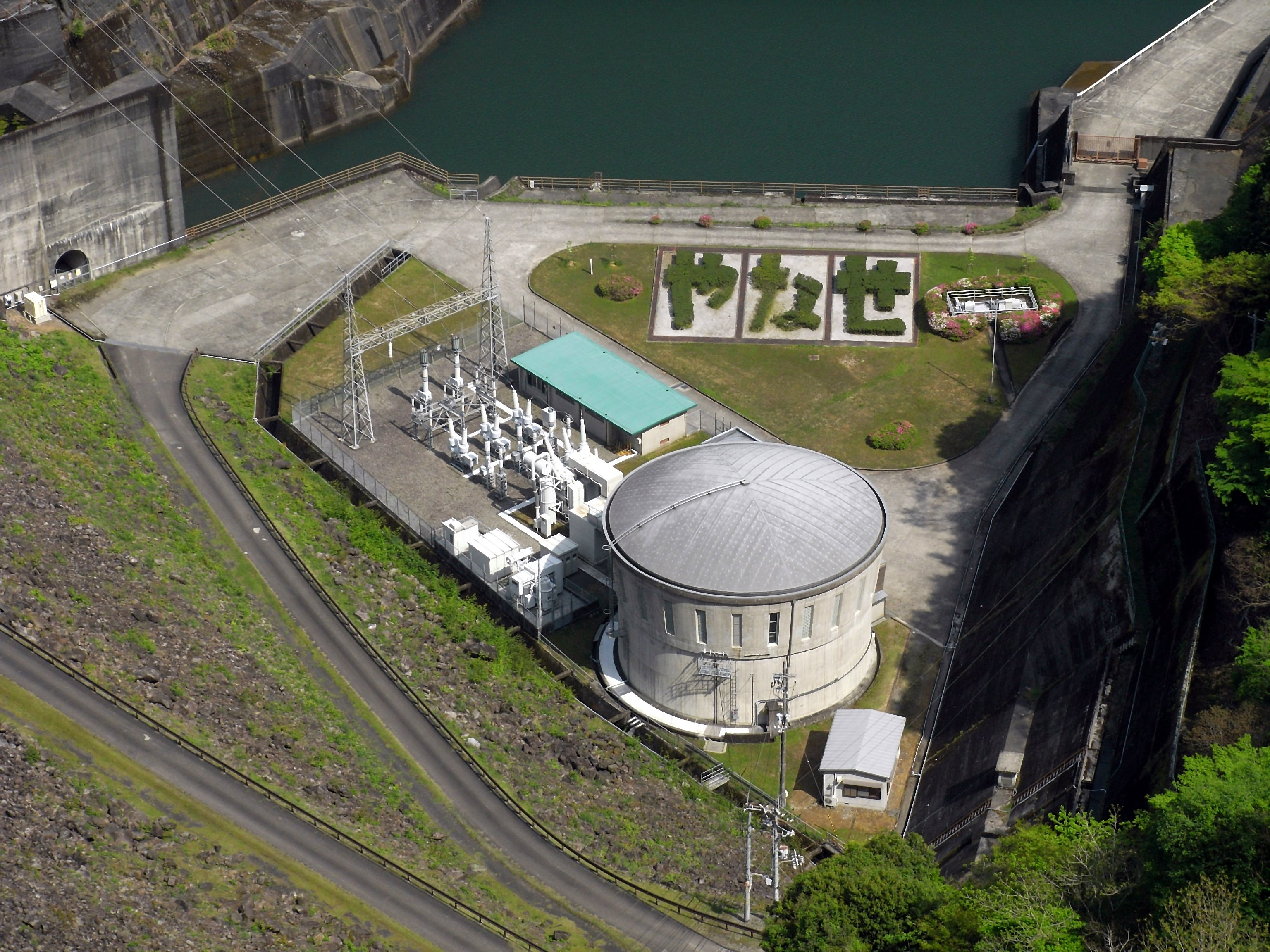 Yanase power station(EPDC/Naharigawa river/Kochi Pref./Japan)